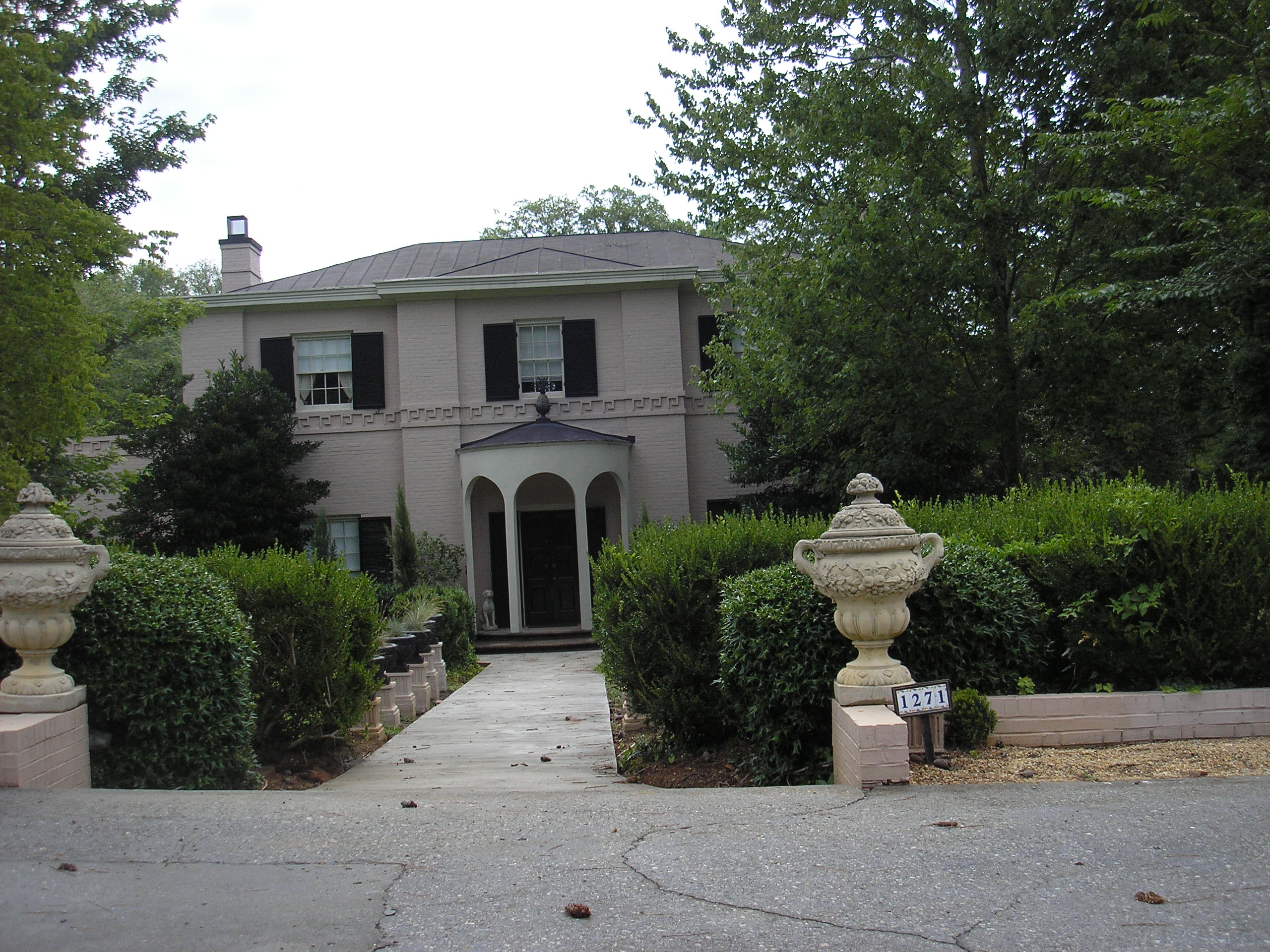 Shirley Hills Historic District